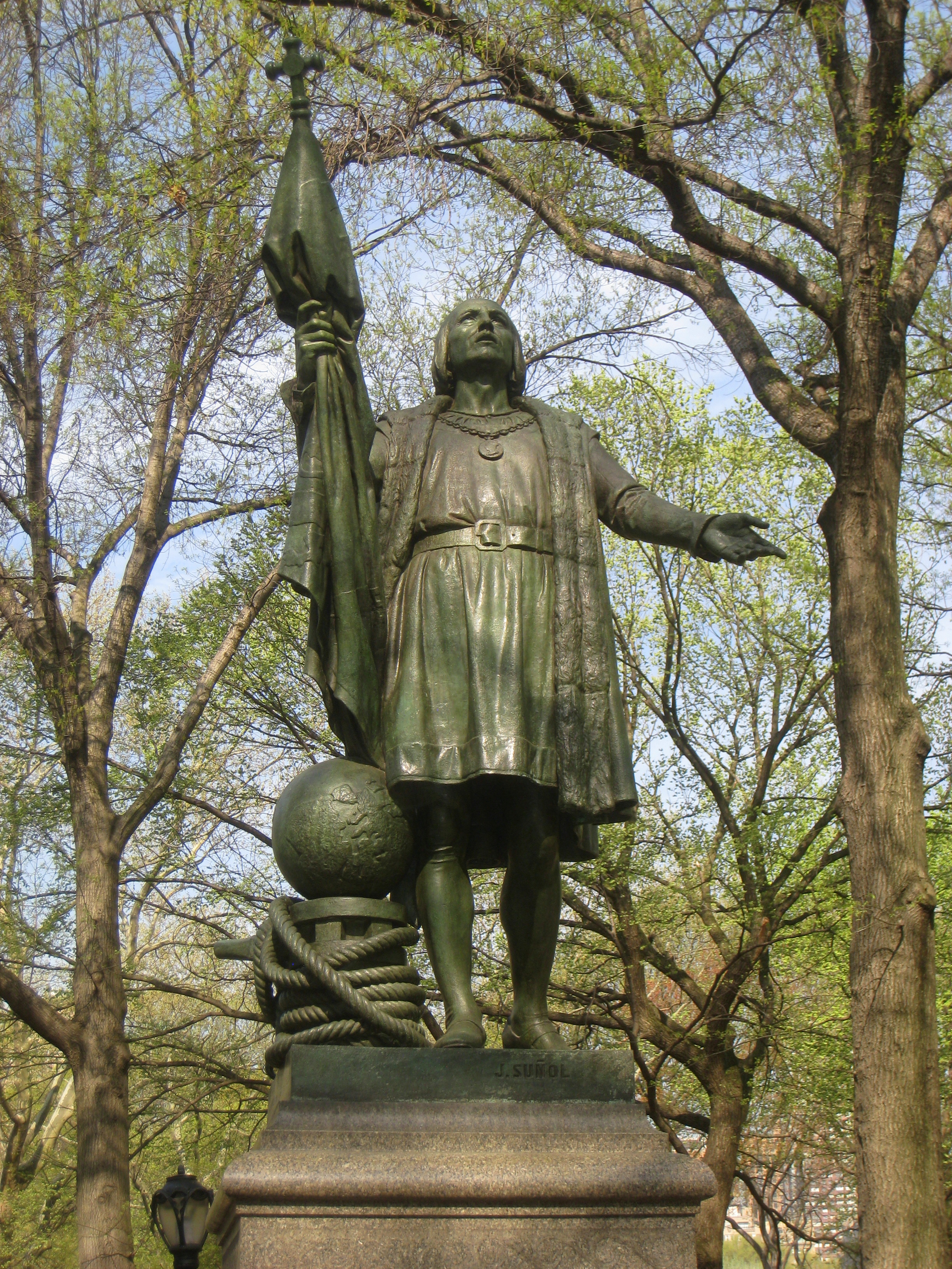 Christopher Columbus statue by Jerónimo Suñol (1840-1902), Central Park, New York City, New York, USA.